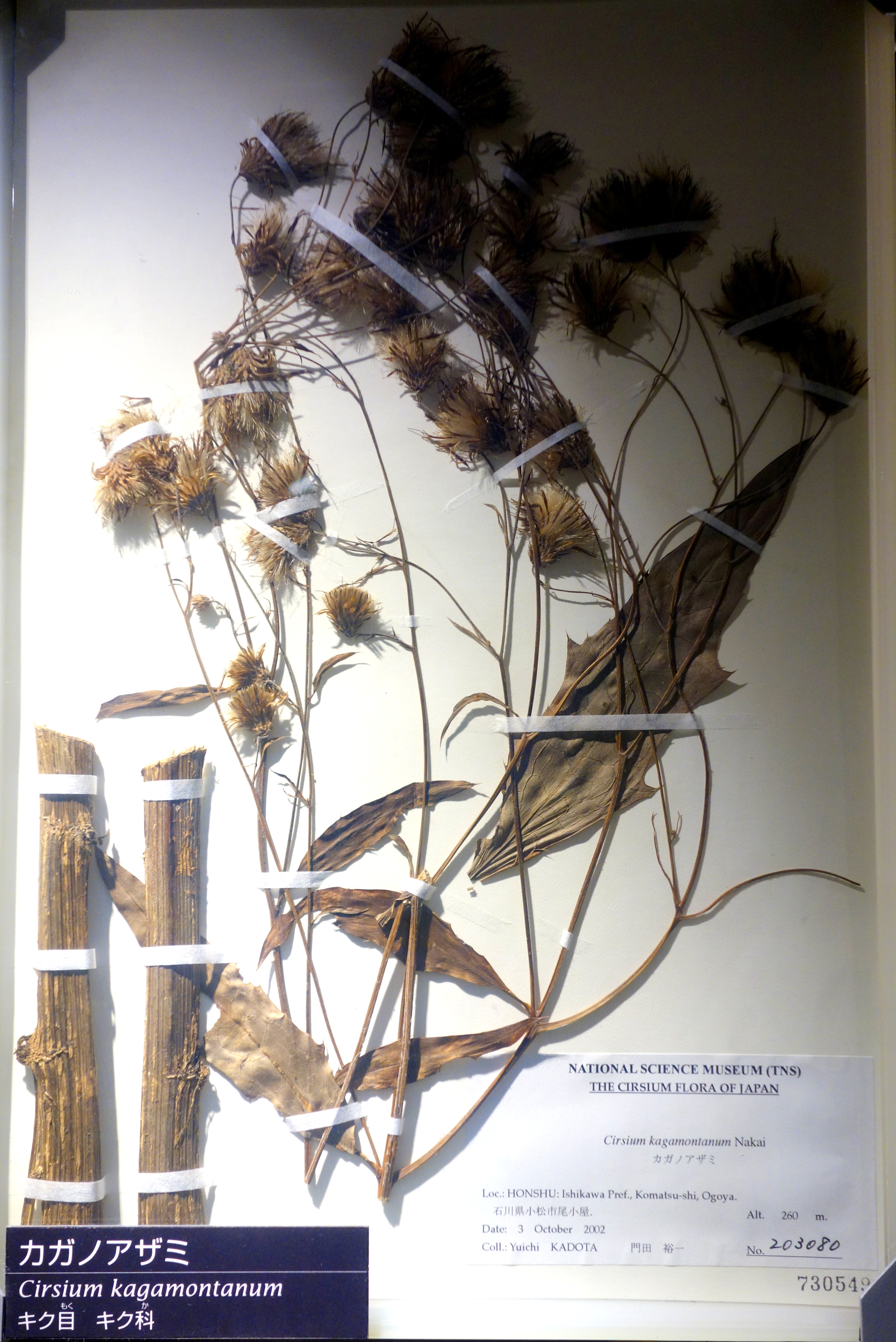 Exhibit in the National Museum of Nature and Science, Tokyo, Japan.